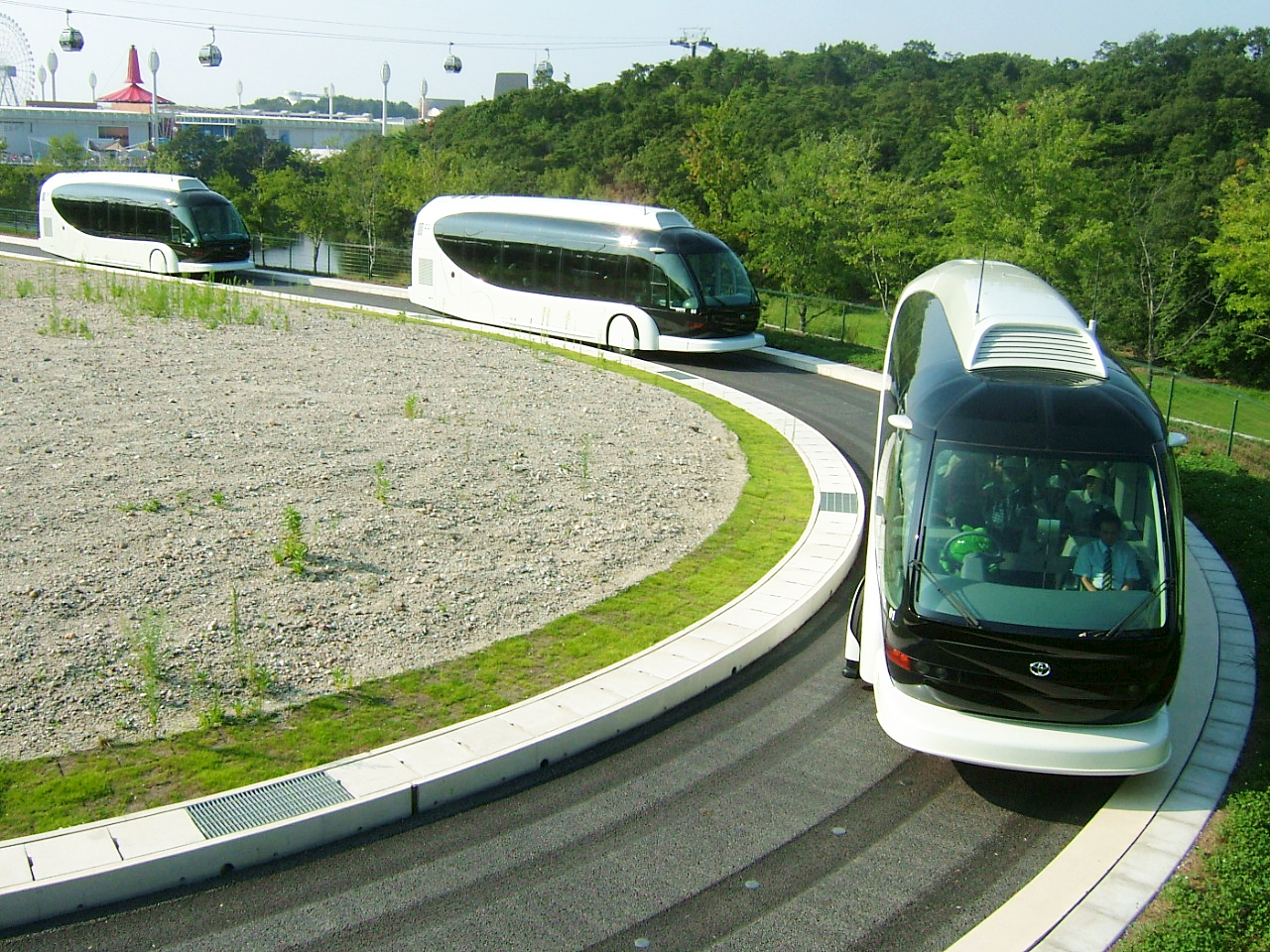 Three IMTS(s) organization of an Expo 2005 Aichi Japan in Nagakute Hell